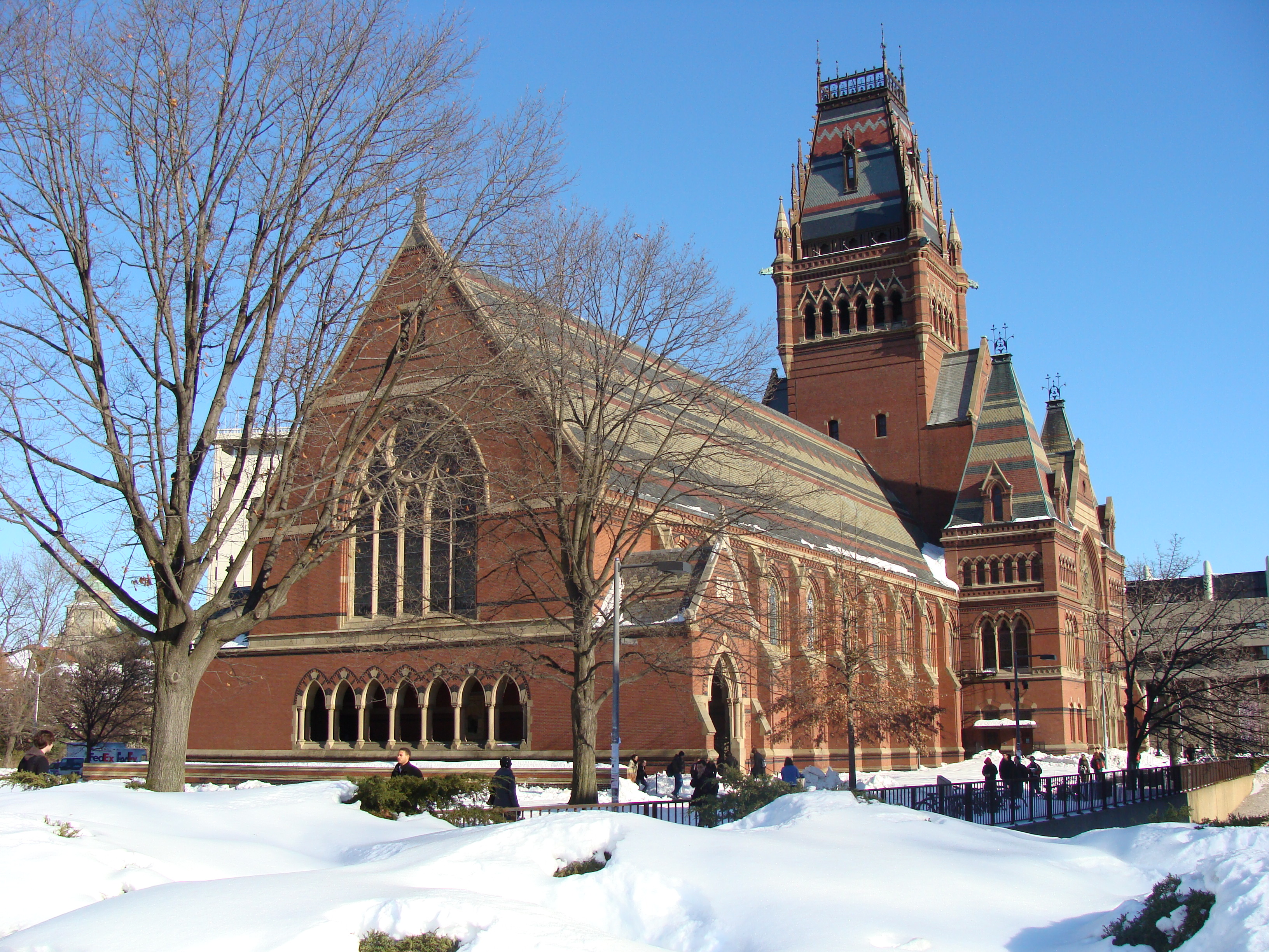 Photographer: Billy Au, Date: 2007.12